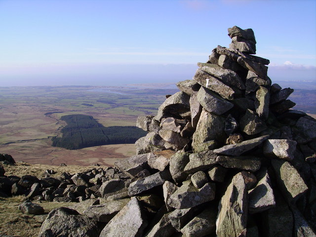 Summit Cairn, Stainton Pike Where the fells meet the sea. Extensive views to the west from Stainton Pike